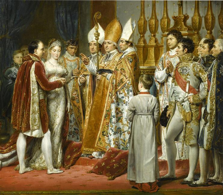 Marriage of Napoleon, Emperor of France, and Archduchess Marie Louise of Austria, eldest daughter of Holy Roman Emperor Franz II. (later Emperor Franz I. of Austria)